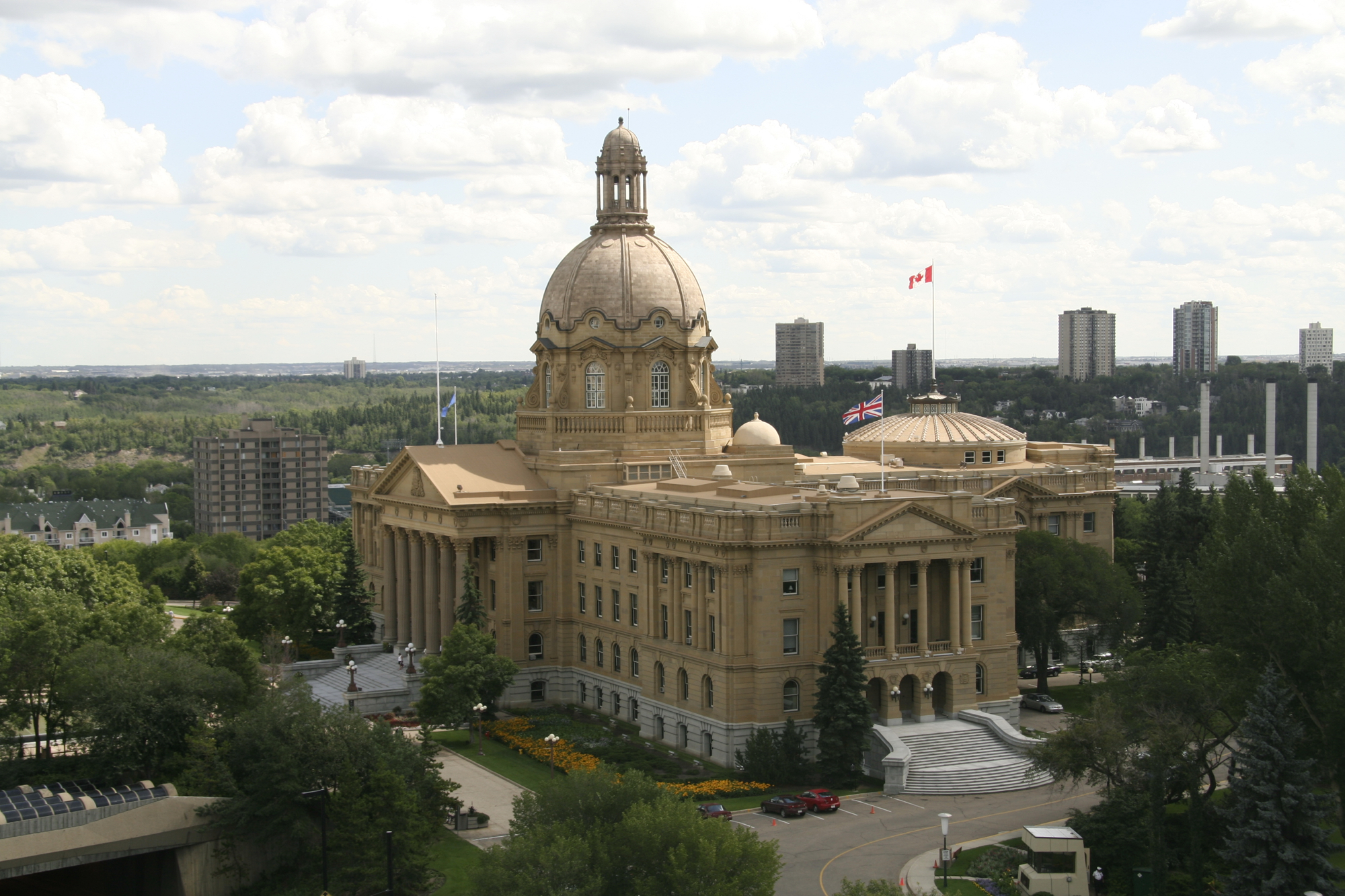 A few pictures of the Alberta Legislature, as taken from a balcony of an office tower on 108th Street.